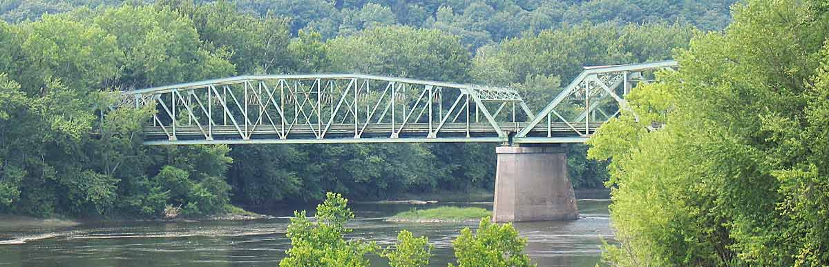 Montague City Road Bridge from downstream